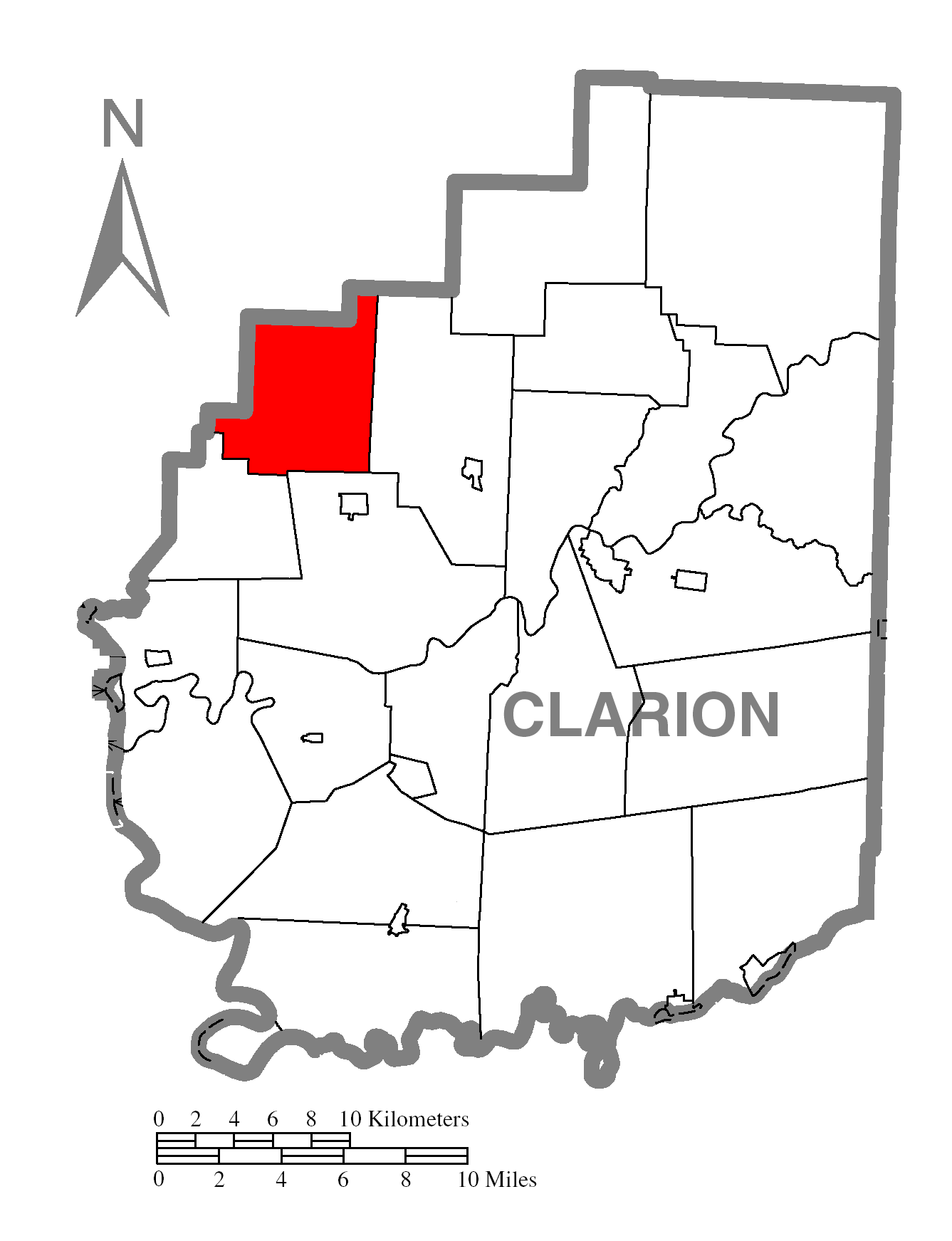 A map of Clarion County showing Ashland Township, Pennsylvania (alternate) highlighted on the map.